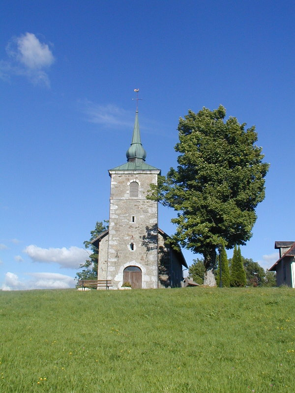 The picture shows the Church of the village La Chapelle-Rambaud.